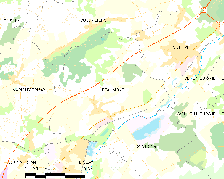 Map of French municipality Beaumont